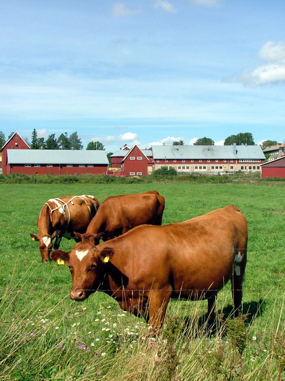 Cows in the pasture in Viikki, Helsinki, Finland, in August, 2005. In the background there are buildings of the University of Helsinki agricultural faculty's teaching farm. Photo by Jonik.